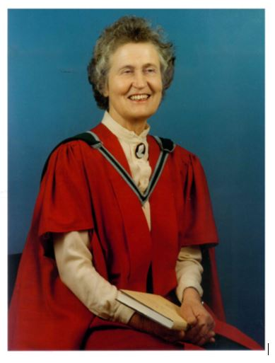 Prof. Eithne Gaffney was the first female RCSI Prof. of Chemistry and held the position for over twenty years